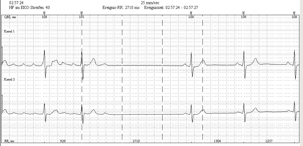 Holter recording of self-terminating atrial flutter and restored sinus rhythm